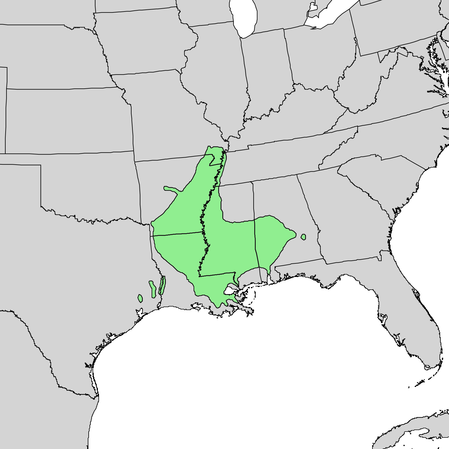 Natural distribution map for Quercus texana